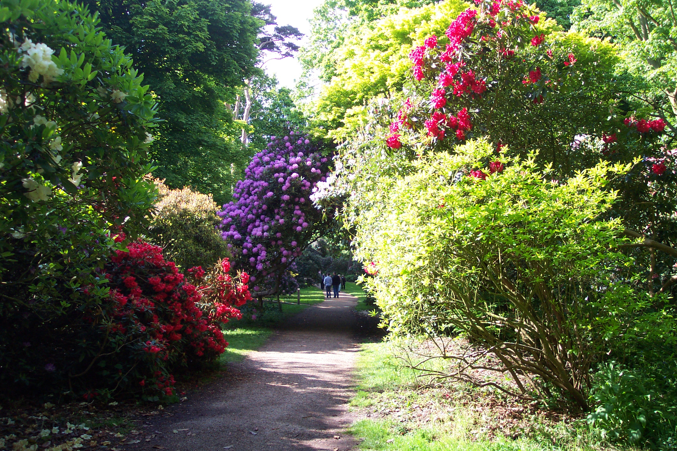 The Rhododendron gardens at Sheringham Park, in the English county of Norfolk. For more information see the Wikipedia article Sheringham Park.